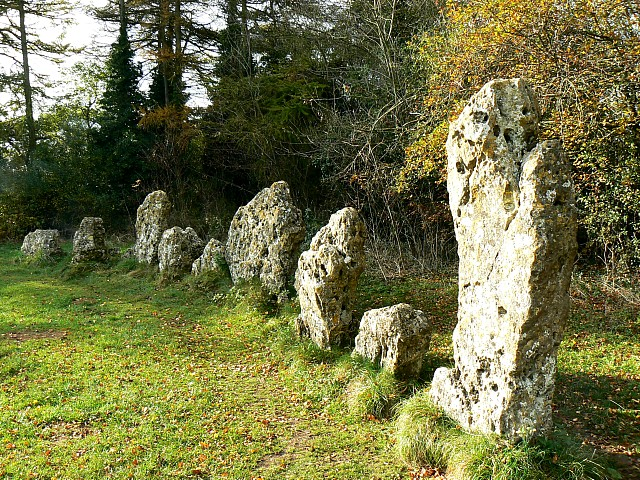 Rollright Stones (part), Oxfordshire This is part of the north-eastern section of the stone circle. More here on the story of this magical place